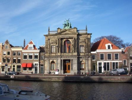 Main entrance of Teyler's Museum in Haarlem. The museum is housed in the former home of Pieter Teyler, whose estate went towards perpetuating the study of art and science. While living he installed the 'Oval Room' for this purpose. Since then (1778), the museum has been expanded, and this imposing entrance was designed in 1878 to make more of an impression than the old Damstraat entrance, which is still the entrance to his old house. That older entrance is only used today for special tours of the old house.